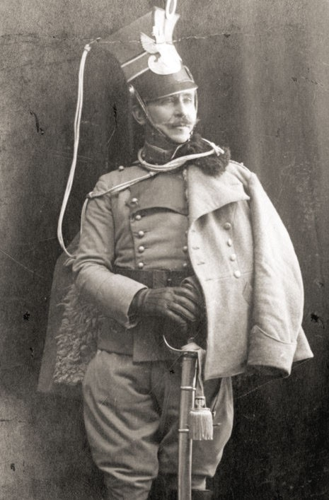 Mariusz Zaruski (1867-1941) - General of the Polish Army. Here as an officer of Polish Legiony